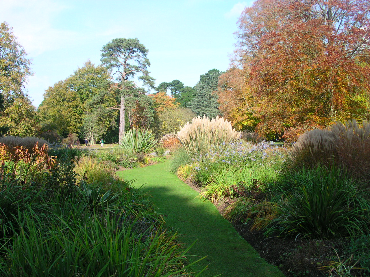 Exbury Gardens, Hampshire, England. November 2007.